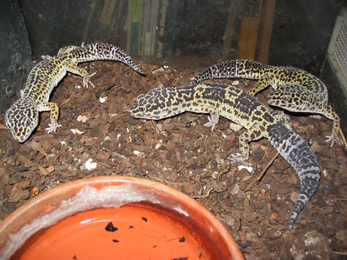 Leopard Gecko, two females and a male